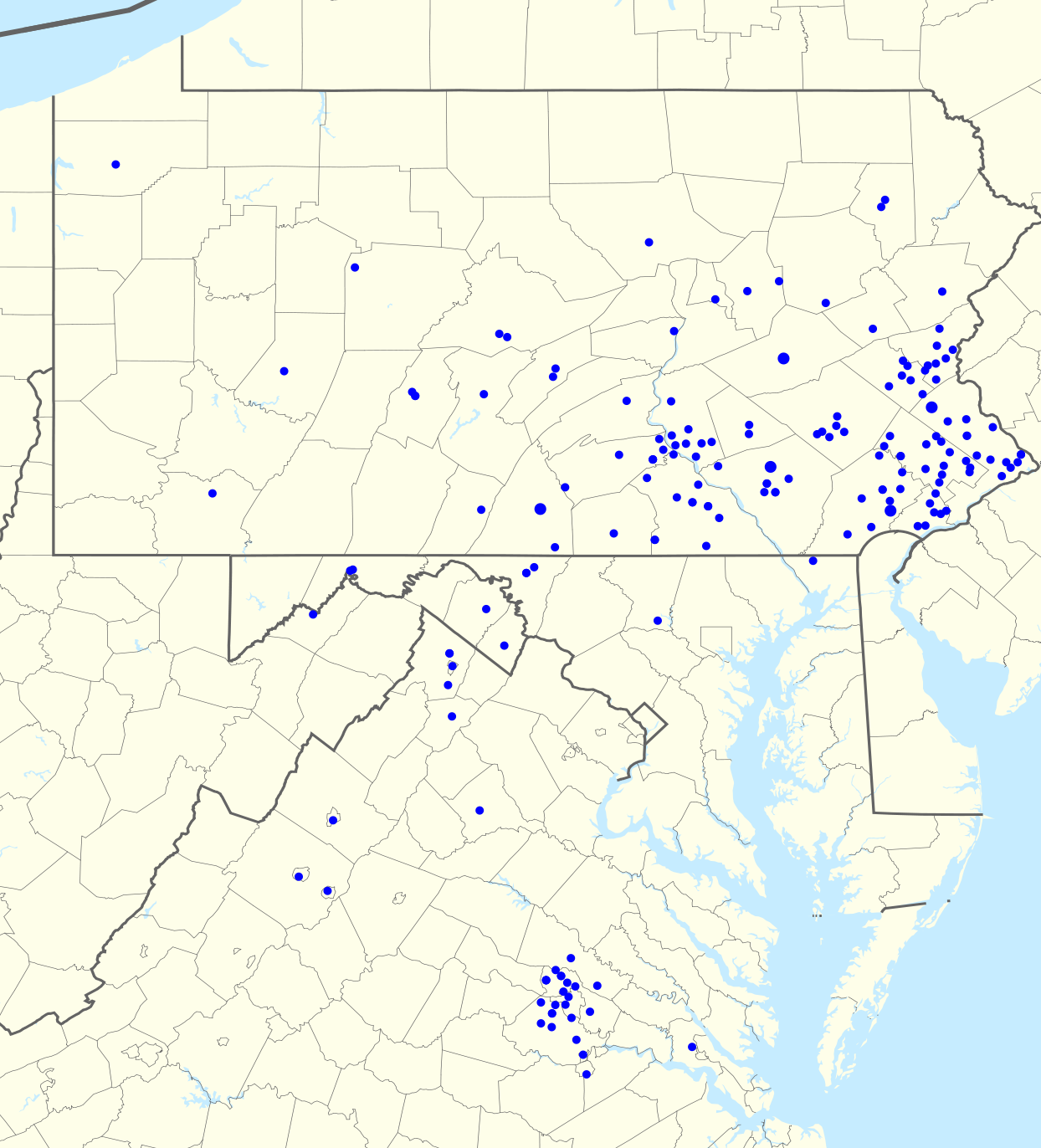 Footprint of Giant-Carlisle stores within the United States. Zip codes with more than one branch have progressively larger points.